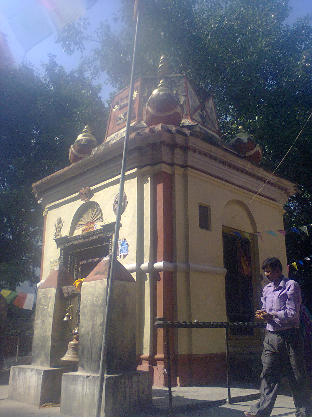 कुशेश्वर महादेव मन्दिर